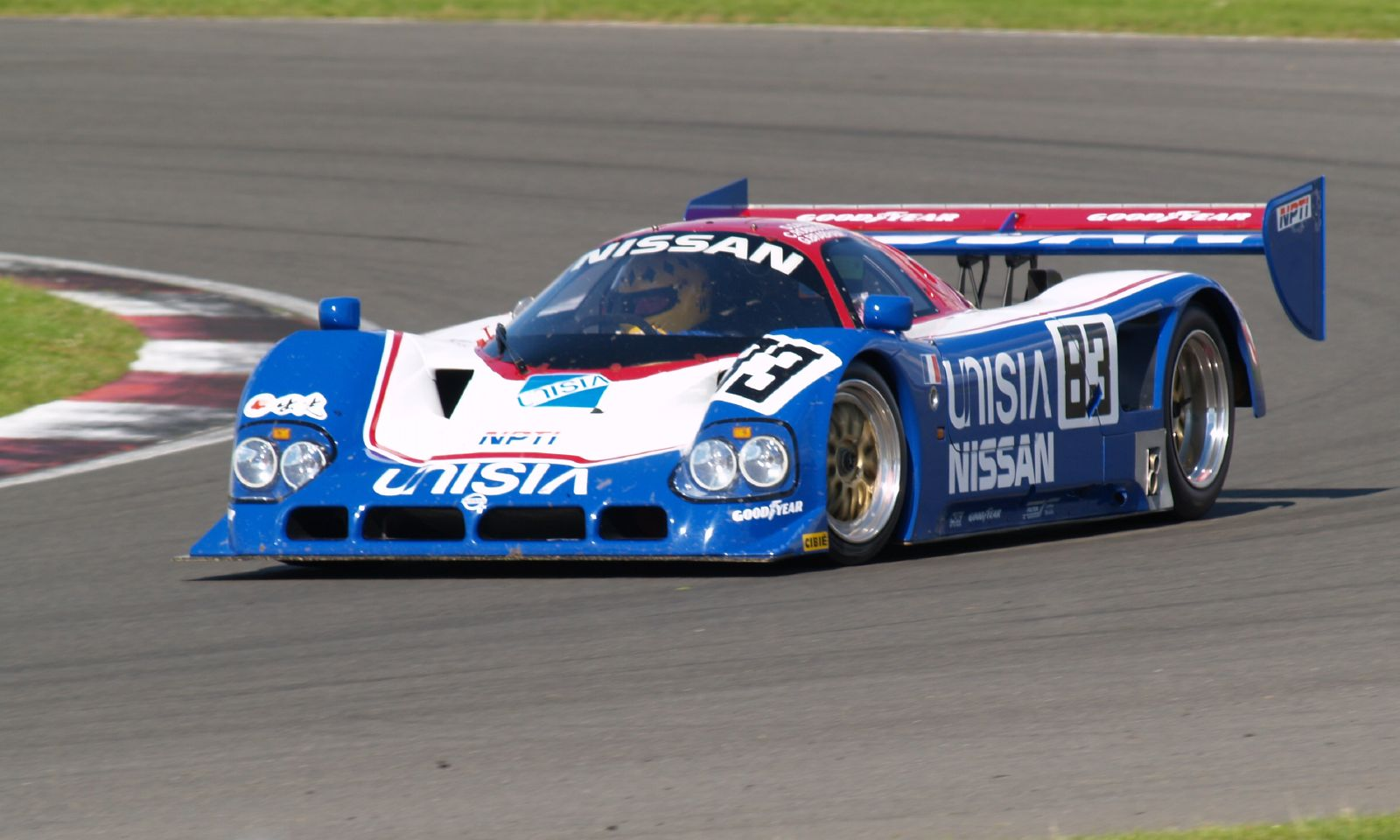 A Nissan R90CK at the Silverstone Classic